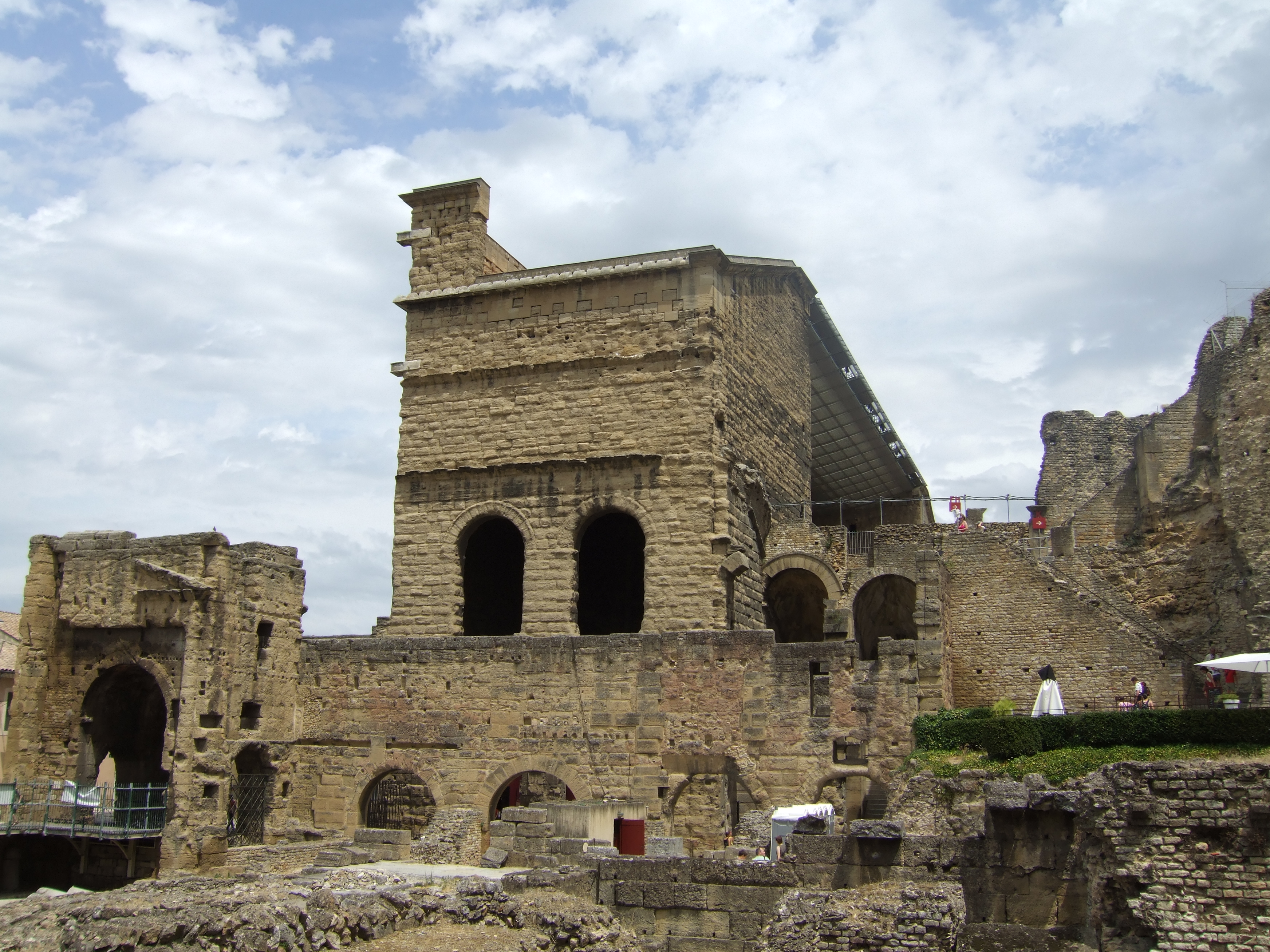 External rightside of the Roman Theatre of Orange (France)